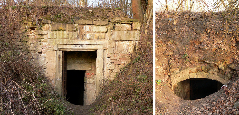 Entrances to the vaulted cellars of Calenberg Fortress, Lower Saxony, Germany